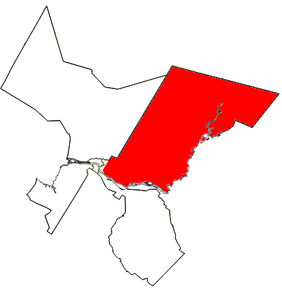 The riding of Fredericton-Grand Lake in relation to other Fredericton electoral districts. The parts of the riding within Fredericton are gold, the balance of the riding is red.